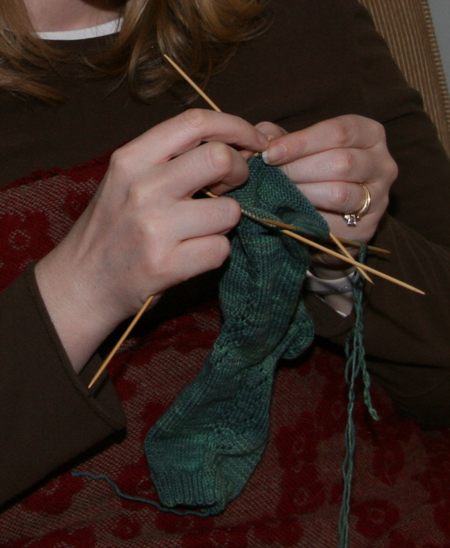 Knitting stockings on double-pointed needles. From original caption: Pattern from "Folk Knitting in Estonia" by Nancy Bush Knit in Tess Designer Yarns, bought at Stitches 2006